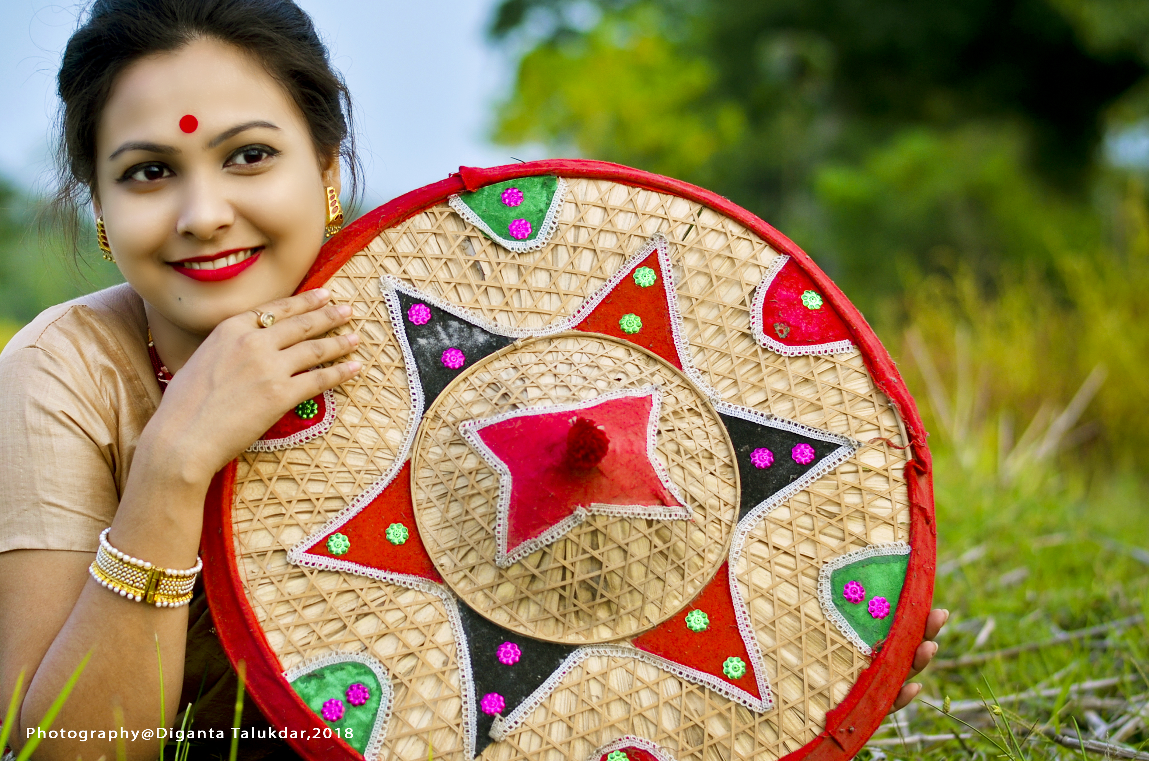 A bihu dancer with Japi (Assamese headgear)